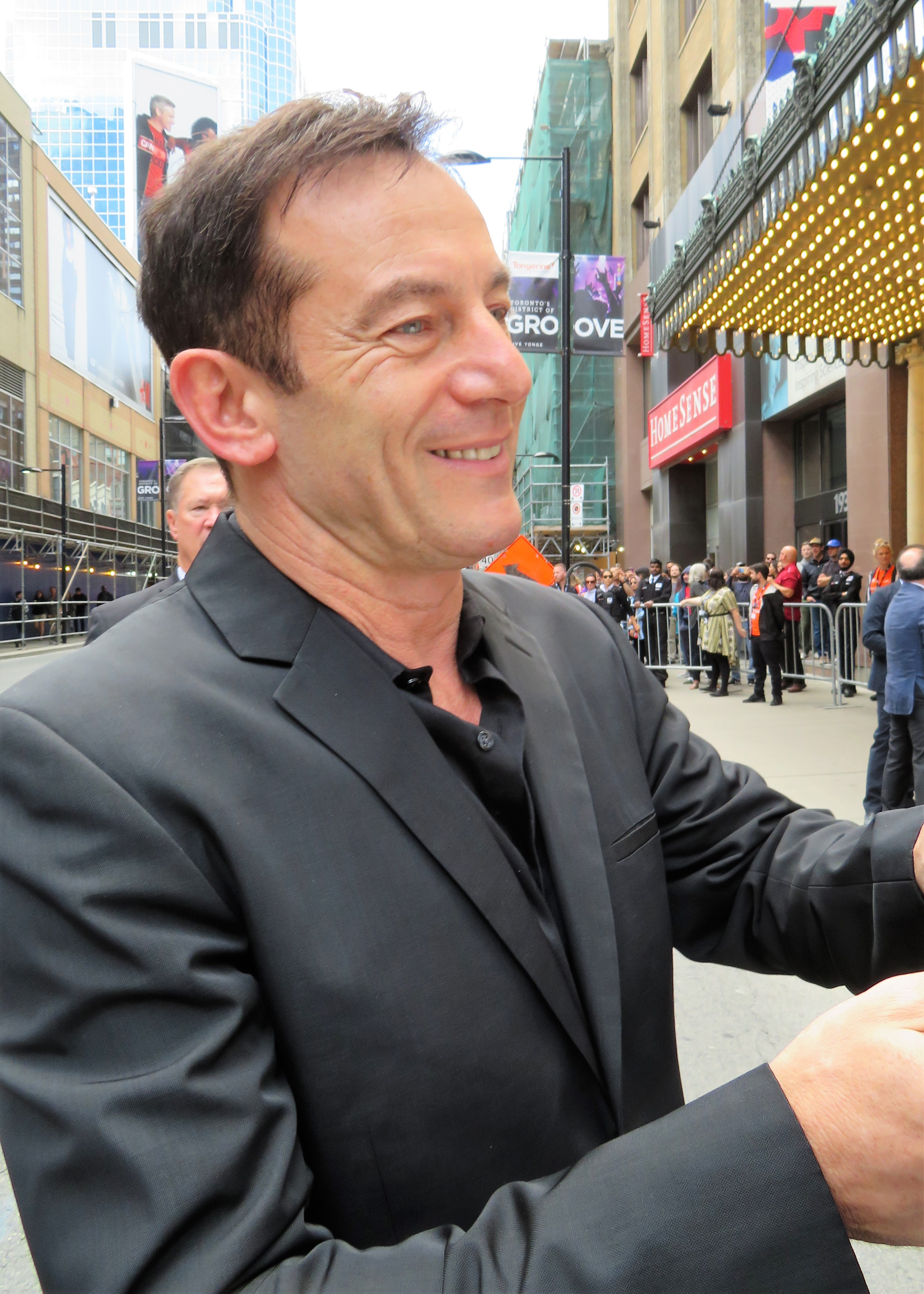 Jason Isaacs at the premiere of Death of Stalin, 2017 Toronto Film Festival